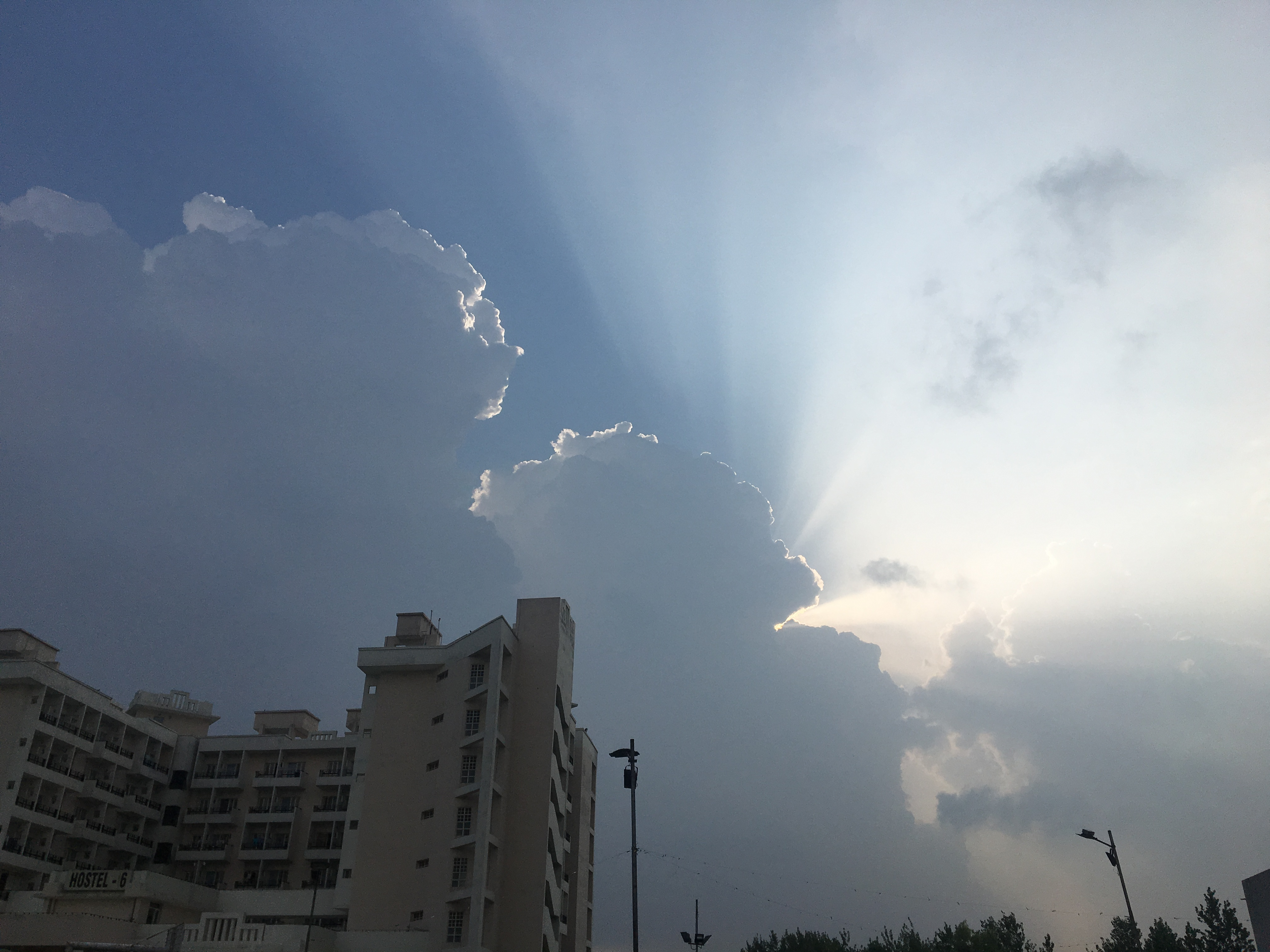 Tyndall effect observed due to clouds